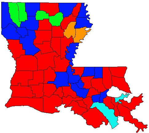 October 21, 1995 Louisiana Gubernatorial Election results by parish. [1] Red – Parishes in which candidate Mike Foster obtained a plurality or majority of the votes cast. Blue – Parishes in which candidate Cleo Fields obtained a plurality or majority of the votes cast. Light Blue – Parishes in which candidate Mary Landrieu obtained a plurality or majority of the votes cast. Light Green – Parishes in which candidate Buddy Roemer obtained a plurality or majority of the votes cast. Orange – Parishes in which candidate Phil Preis obtained a plurality of majority or the votes cast.